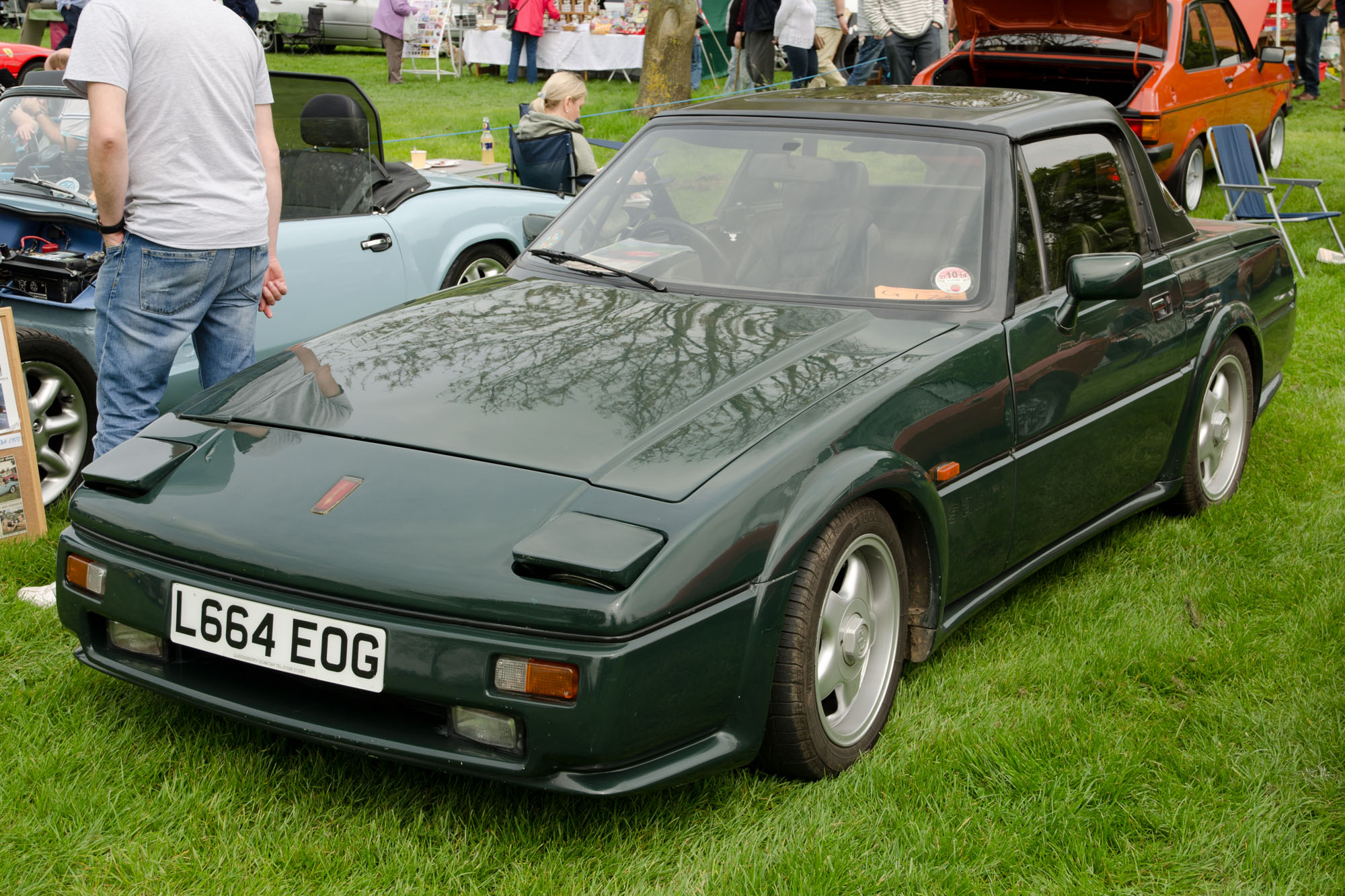 1993 Reliant Scimitar Sabre 1.8 (DVLA) first registered 1 December 1993 Catton Hall Classic Car Show 04/05/2014